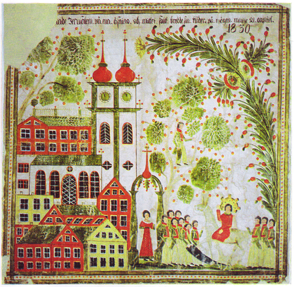 Jesus riding into Jerusalem on a donkey and many people spread their clothing on the road. Matthew 21. 1830